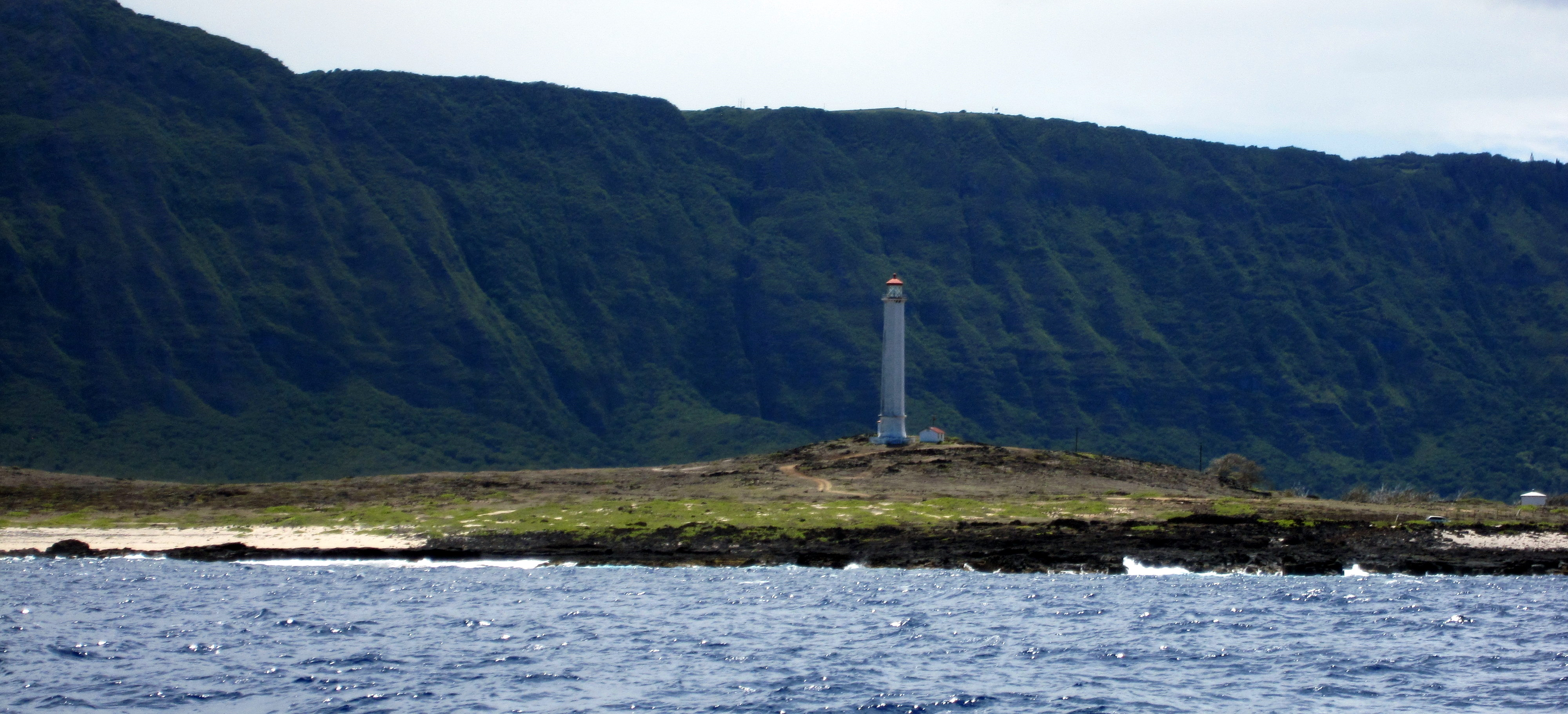 Photo was taken from sea looking on a trip from Honolua Bay on Maui to Kaneohe Bay on Oahu. Located adjacent to the airport at the tip of the Kalaupapa Peninsula on the northern shore of Molokai. Latitude: 21.20961 Longitude: -156.96969